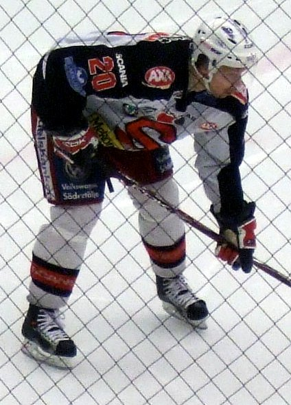 Finnish hce hockey player Petri Pakaslahti of Södertälje SK during the Swedish Elite League game Timrå IK-Södertälje SK (0-1) inside the E.ON Arena, Timrå, Sweden.